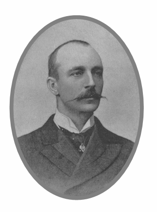 Dr Joseph Maloney (1857-1896), Medical Officer on the 1891-92 Stairs Expedition